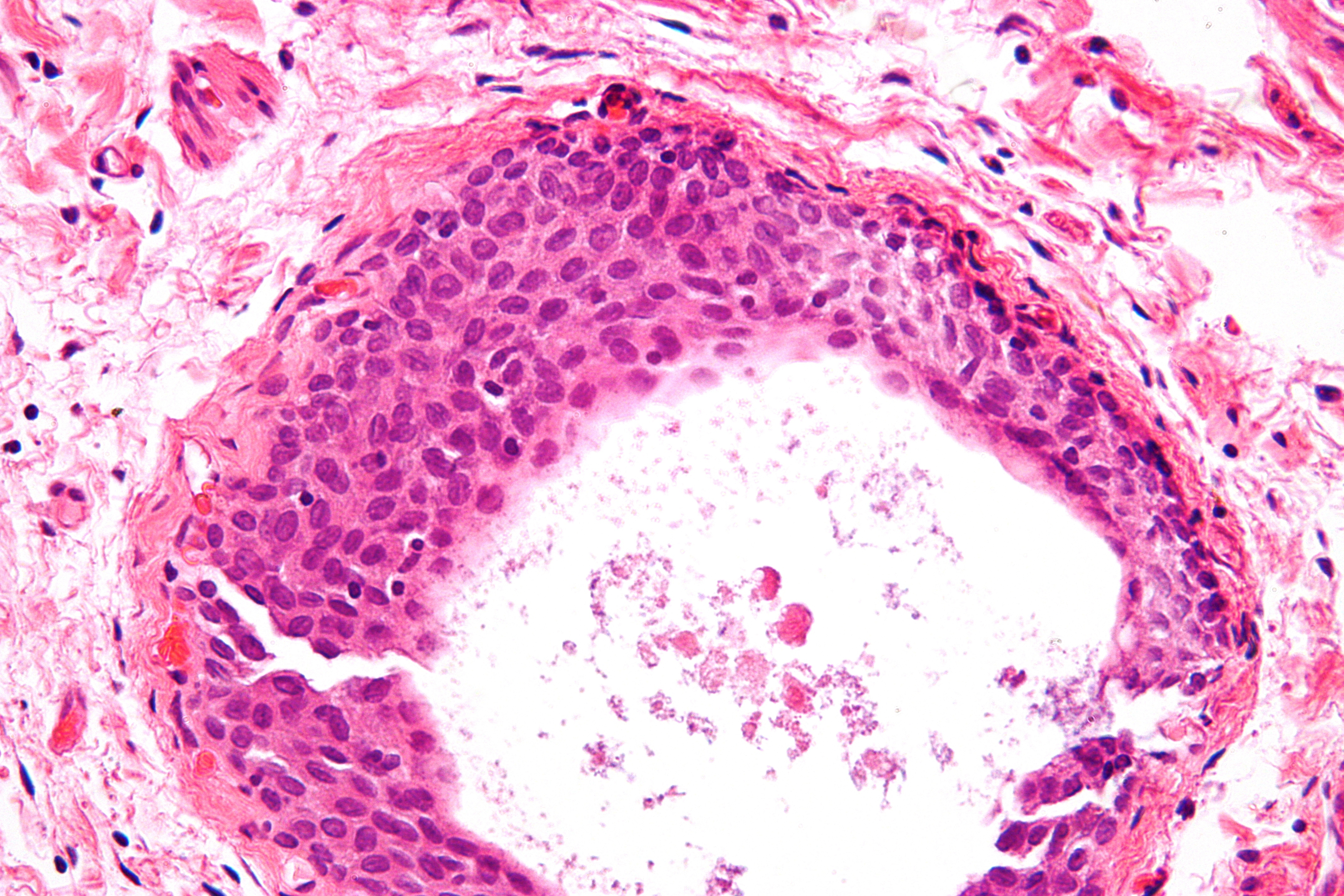 Very high magnification micrograph of a cystic Walthard cell rest, also known as Walthard cell nests. H&E stain. Morphologic features: Elliptical nuclei with a groove along the major axis; "coffee bean" nucleus. Nests - usually a solid sheet of cells. Related images Very high mag. High mag. Intermed. mag. Low mag. Very low mag. Brenner tumour: High mag. (cropped) High mag. Intermed. mag.